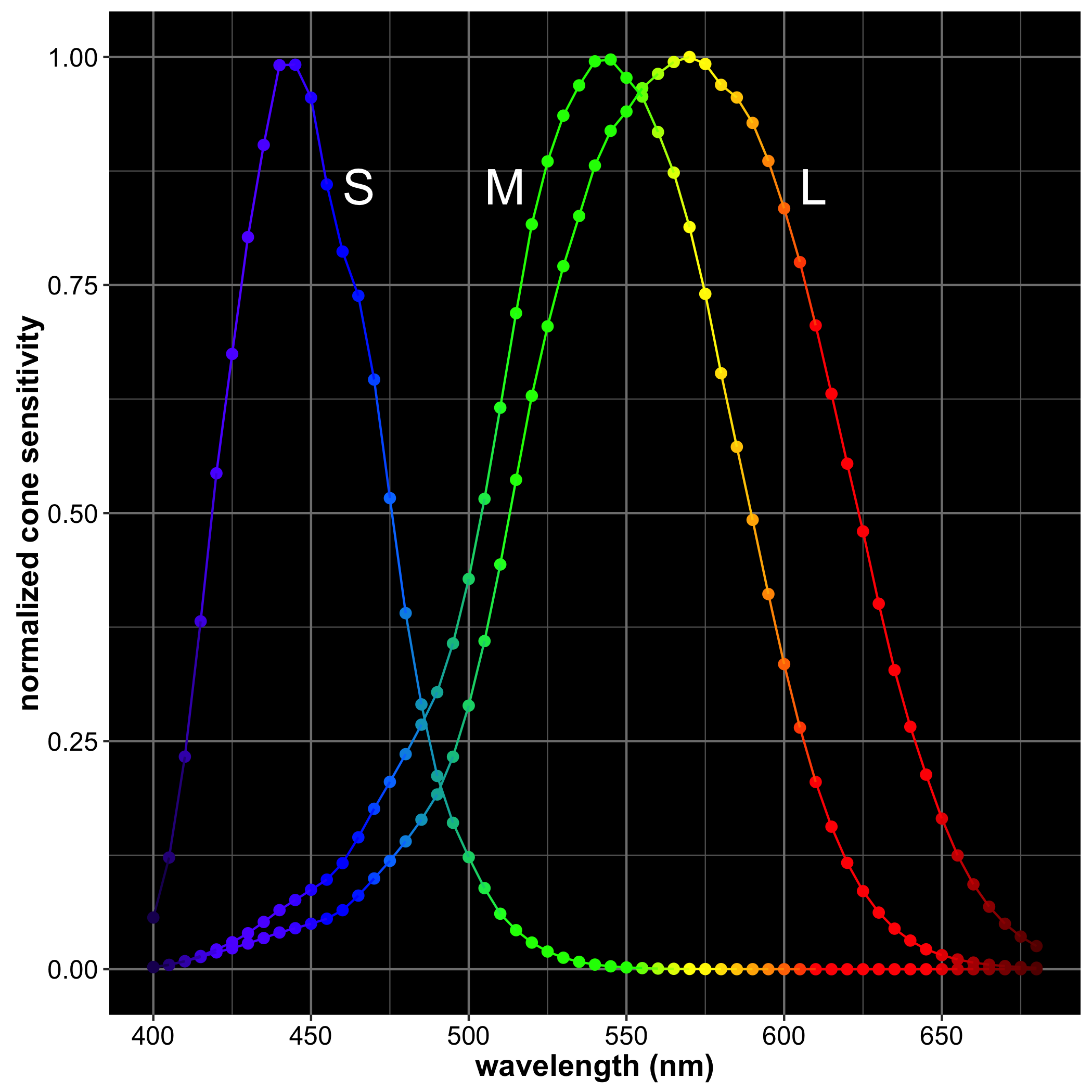 A graph of the normalized L, M, S cone sensitivities. Data from the 'StockmanSharpe2degCMFadj2000'[1] from the R package 'color science'. The R source for generating this graph is available at